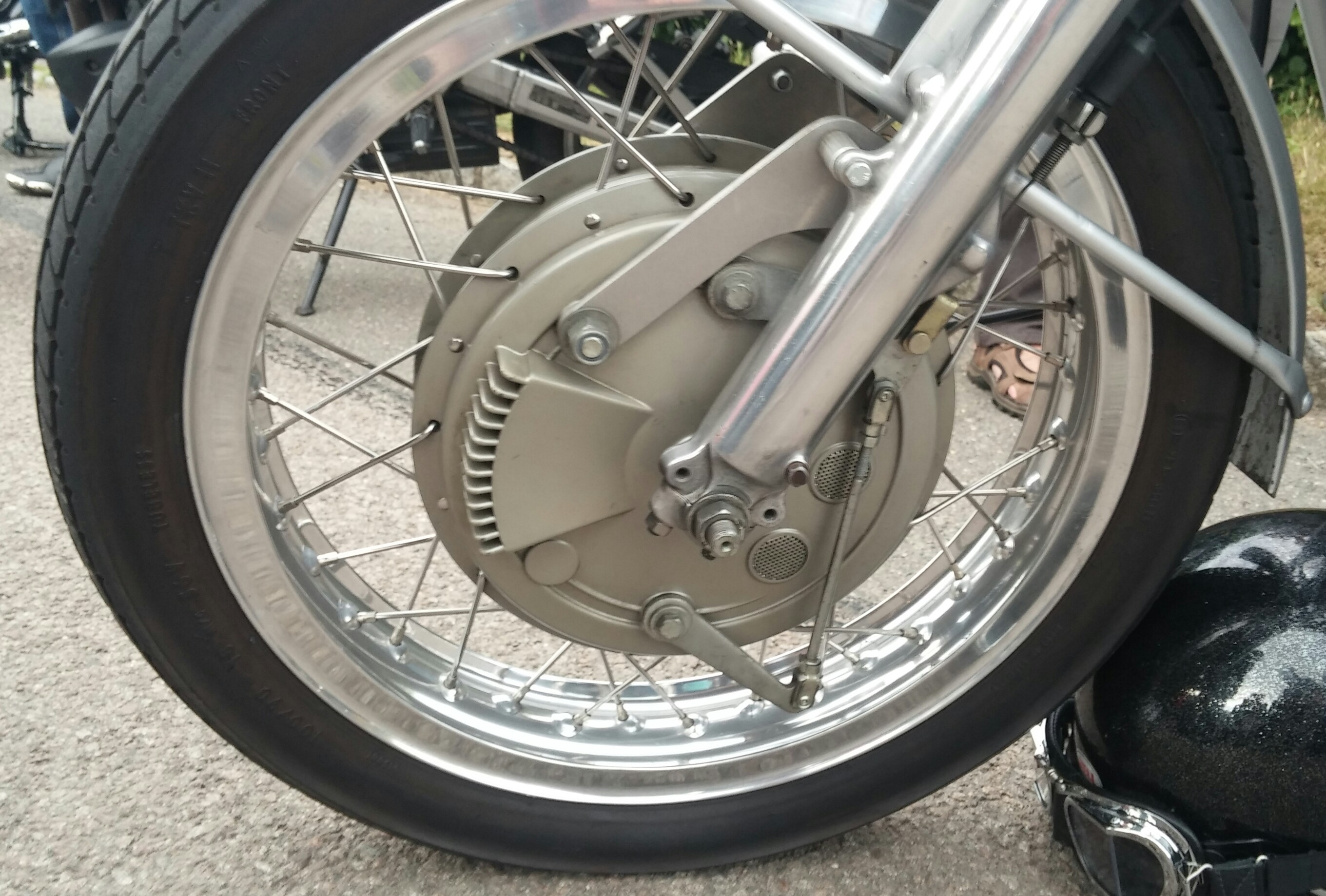 Front ventilated drum brake on a Honda endurance racer